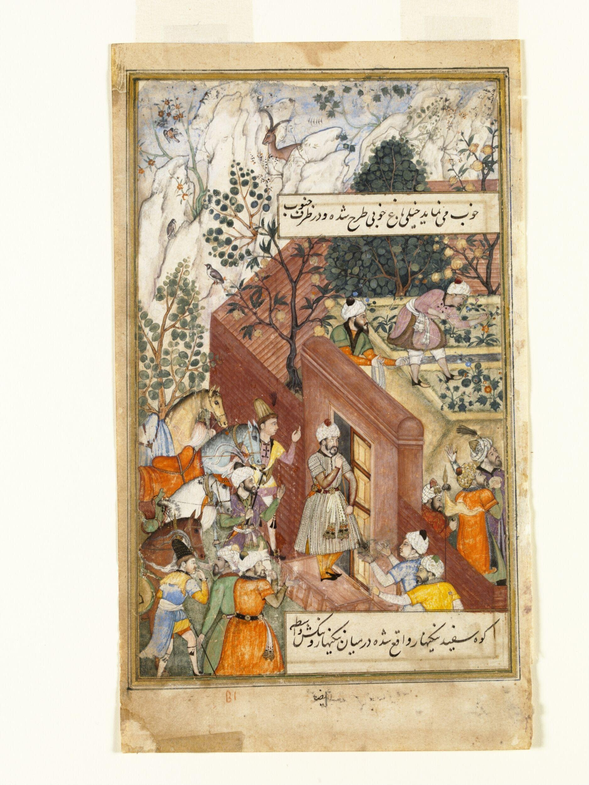 The "Memoirs of Babur" or Baburnama are the work of the great-great-great-grandson of Timur (Tamerlane), Zahiruddin Muhammad Babur (1483-1530). The Baburnama tells the tale of the prince's struggle first to assert and defend his claim to the throne of Samarkand and the region of the Fergana Valley. After being driven out of Samarkand in 1501 by the Uzbek Shaibanids, he ultimately sought greener pastures, first in Kabul and then in northern India, where his descendants were the Moghul (Mughal) dynasty ruling in Delhi until 1858. The miniatures are from an illustrated copy of the Baburnama prepared for the author's grandson, the Mughal Emperor Akbar. It is worth remembering that the miniatures reflect the culture of the court at Delhi; hence, for example, the architecture of Central Asian cities resembles the architecture of Mughal India. Nonetheless, these illustrations are important as evidence of the tradition of exquisite miniature painting which developed at the court of Timur and his successors. Timurid miniatures are among the greatest artistic achievements of the Islamic world in the fifteenth and sixteenth centuries. Illustrations of Mughals from the Baburnama